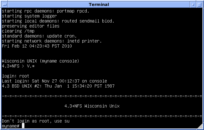 4.3 BSD from the University of Wisconsin, running in the SIMH VAX-11/780 simulator with 16MB memory. The system describes itself as "4.3 BSD UNIX" and "4.3+NFS", and it dates to around January 1987.